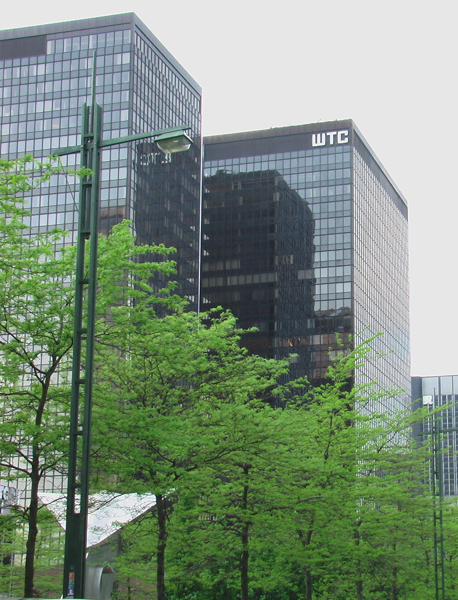 WTC Towers I and II Brussels